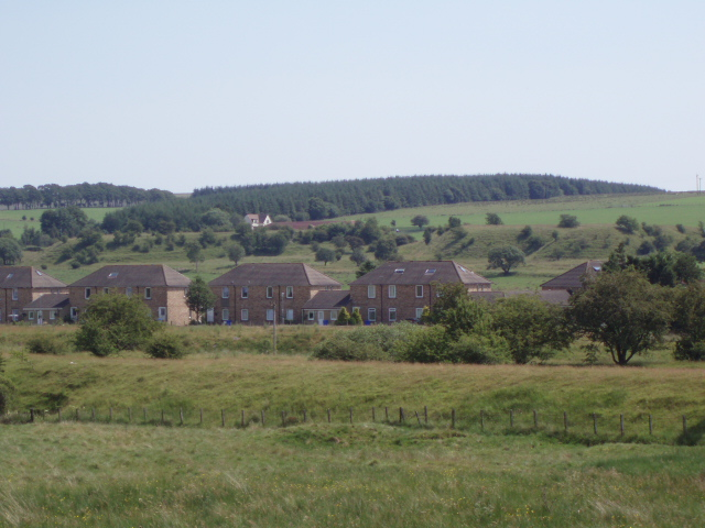 Cronberry. The single street of Cronberry